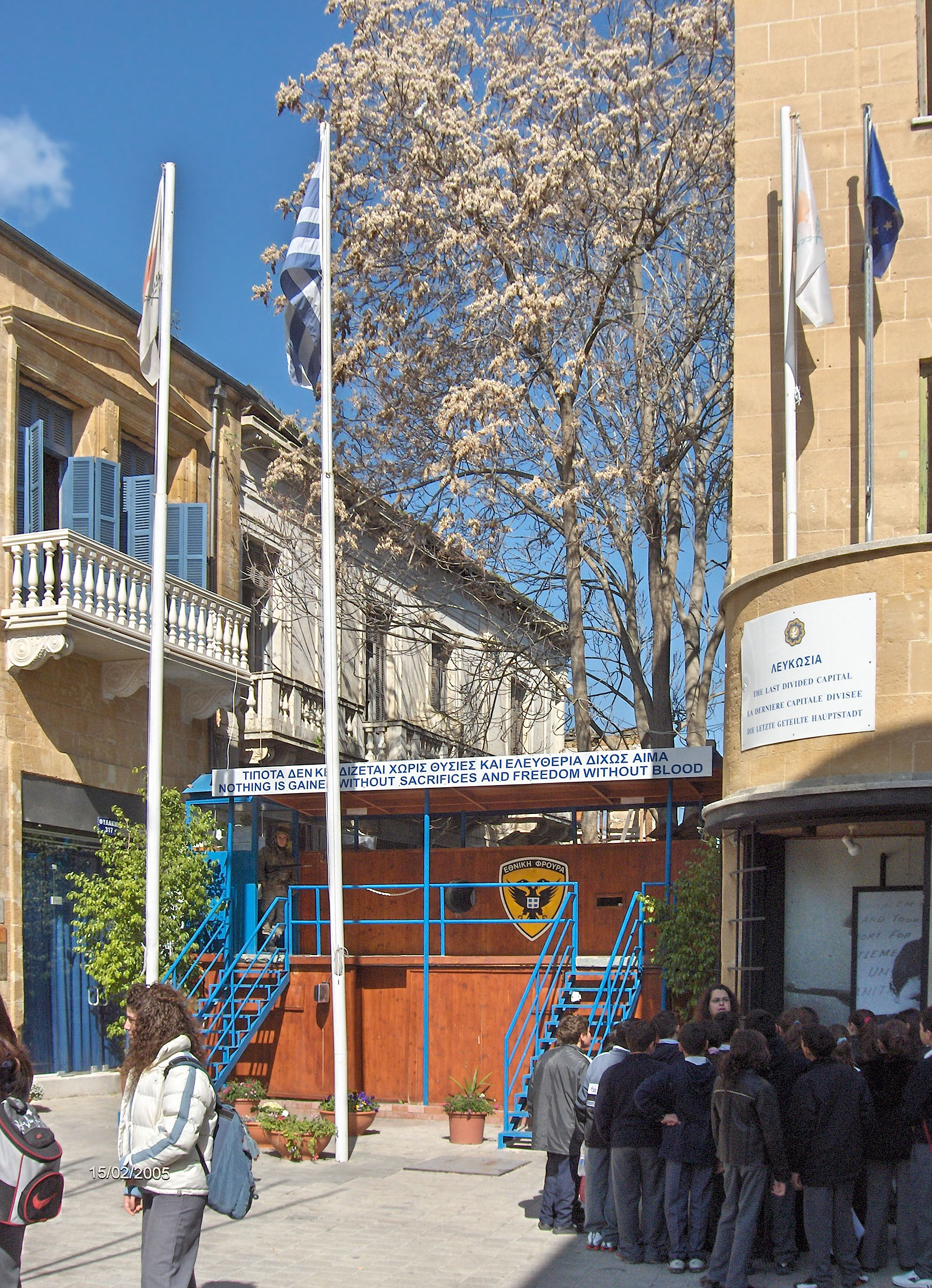 Checkpoint on Nicosia's Ledra Street in 2005, before the opening of the "border". (Cyprus). The texts read: "Nothing is gained without sacrifices and freedom without blood" and "The last divided capital"